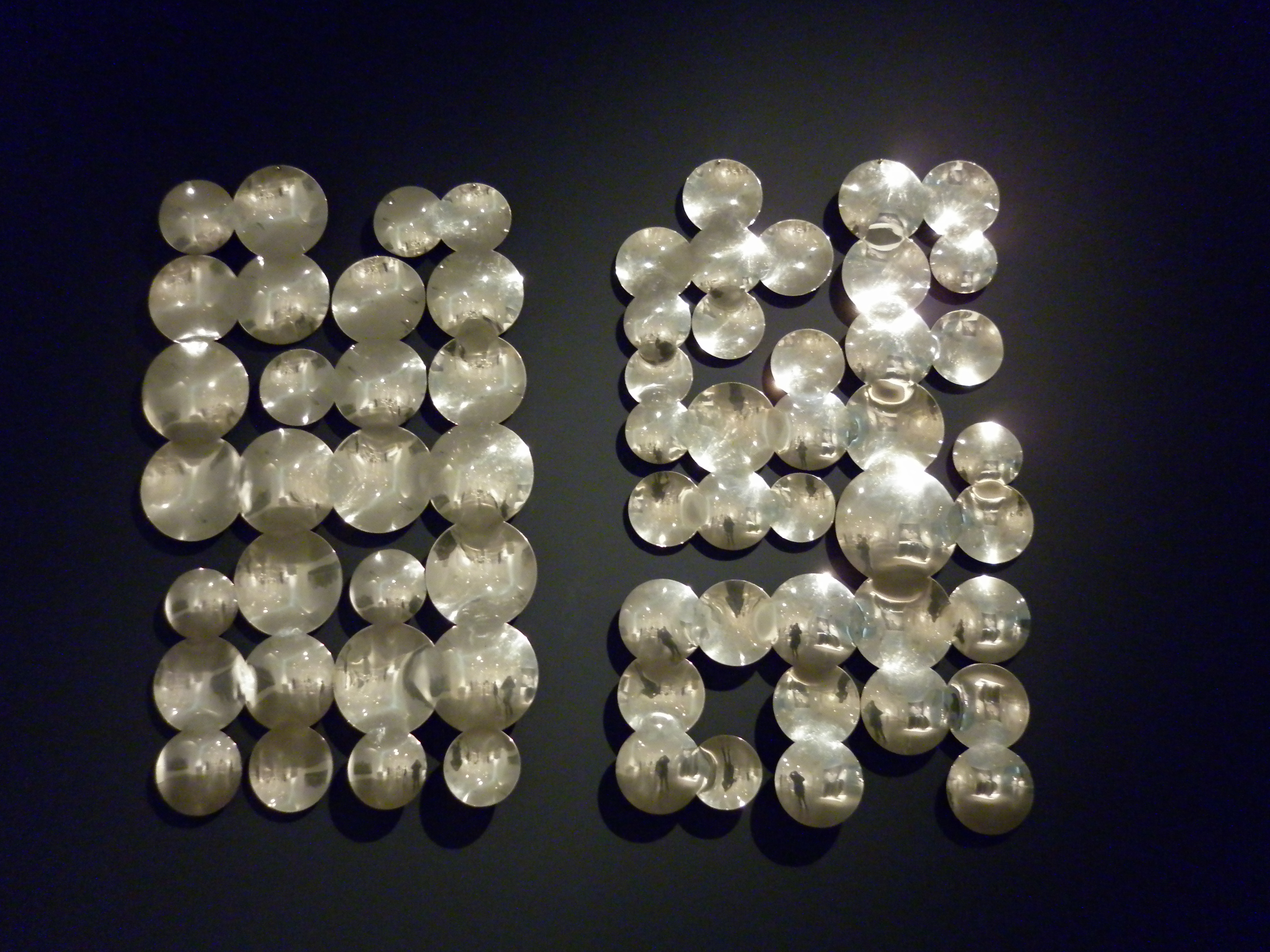 Part of the exhibition "Vojin Bakić retrospective" (December 6, 2013 - March 2, 2014) in the Museum of the Contemporary Art in Zagreb.